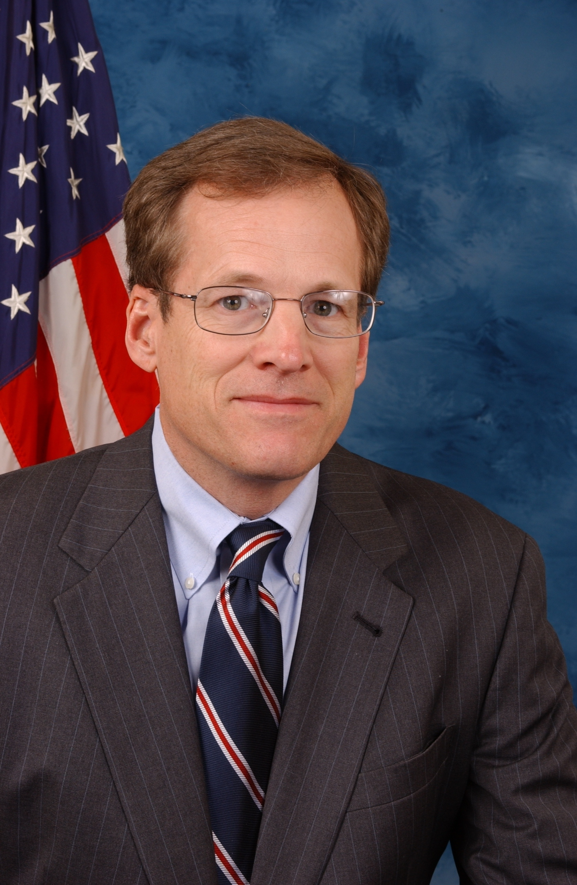 Jack Kingston, U.S. Congressman (R-Georgia, 1993-present).